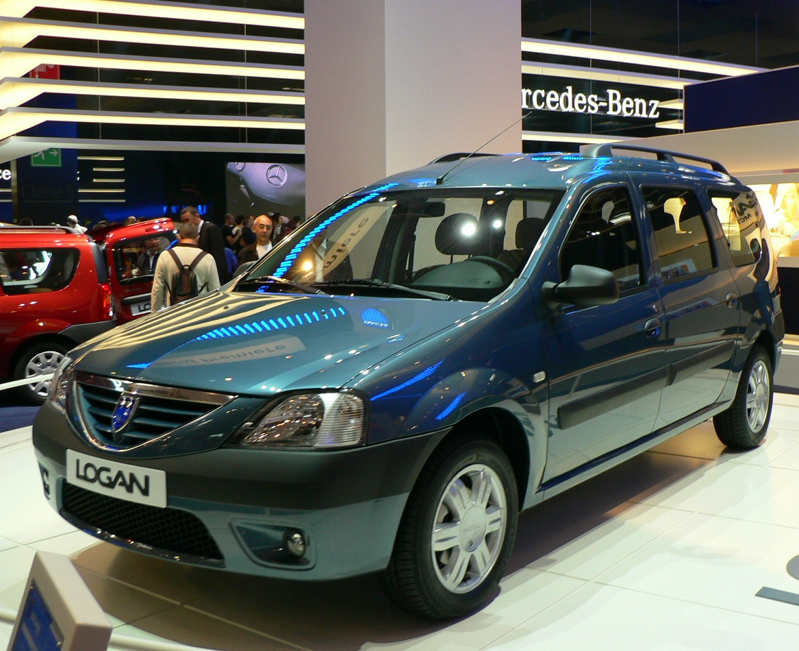 Dacia Logan MCV at the 2006 Paris Motor Show